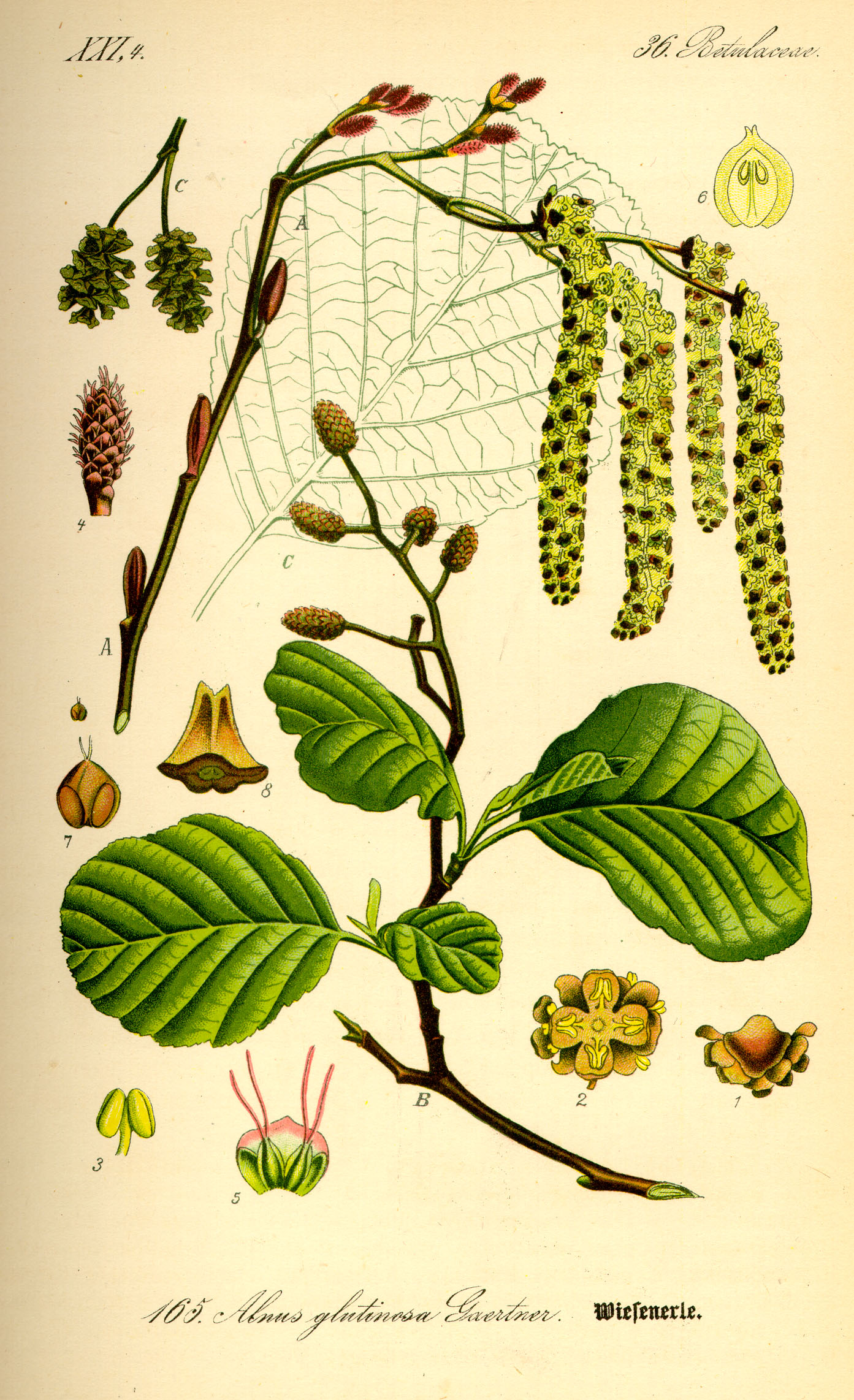 Name:Alnus glutinosa. Family:Betulaceae.